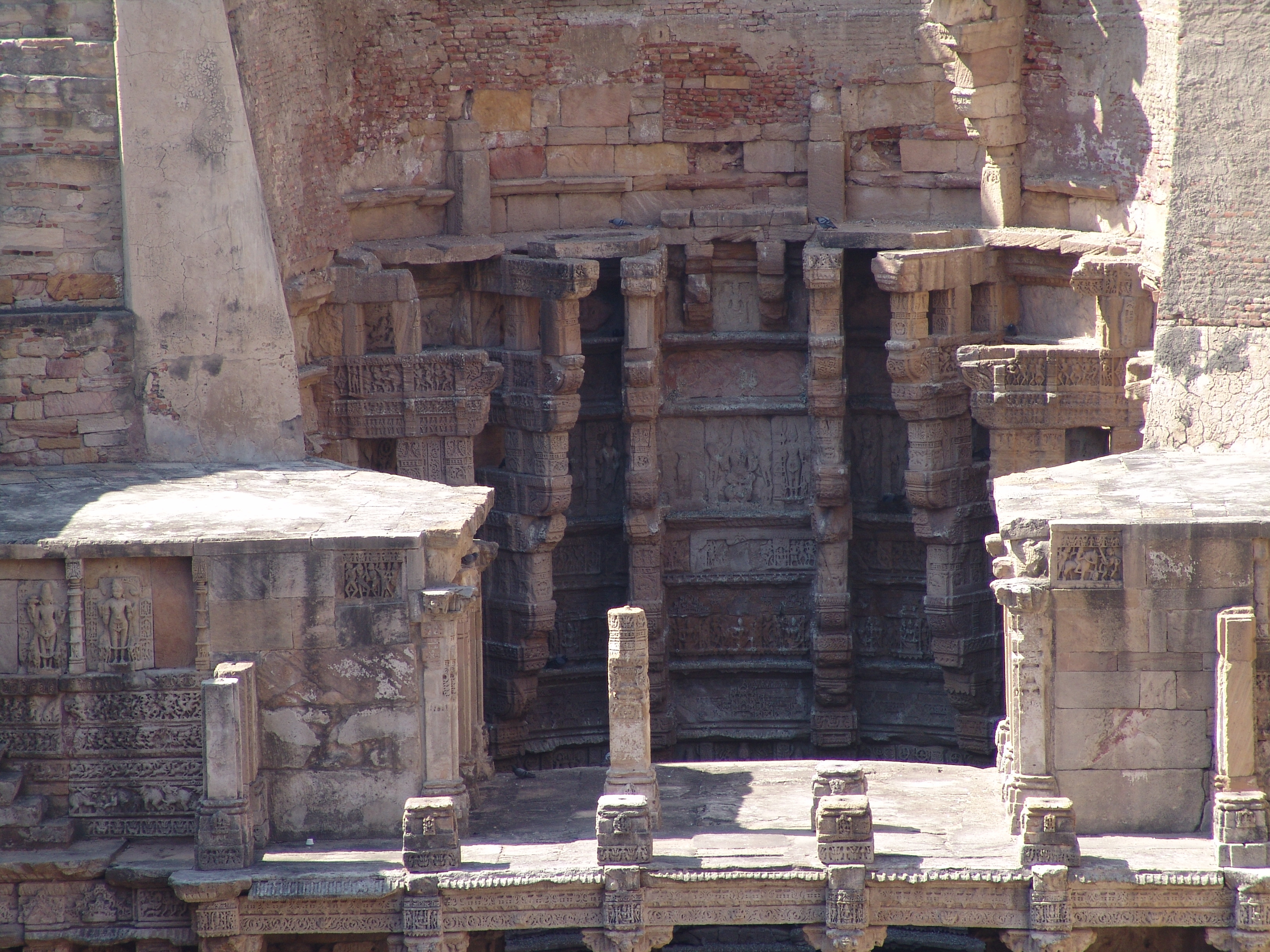 A view of the front wall of the step well